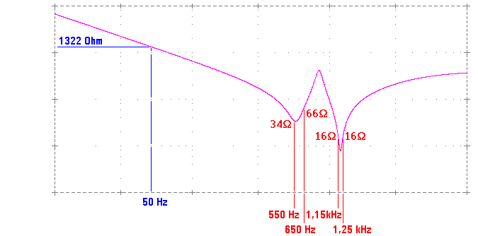 Impedance of AC filter, which were used on GKK Etzenricht, according File:Oberwellenfilter etzenricht.GIF